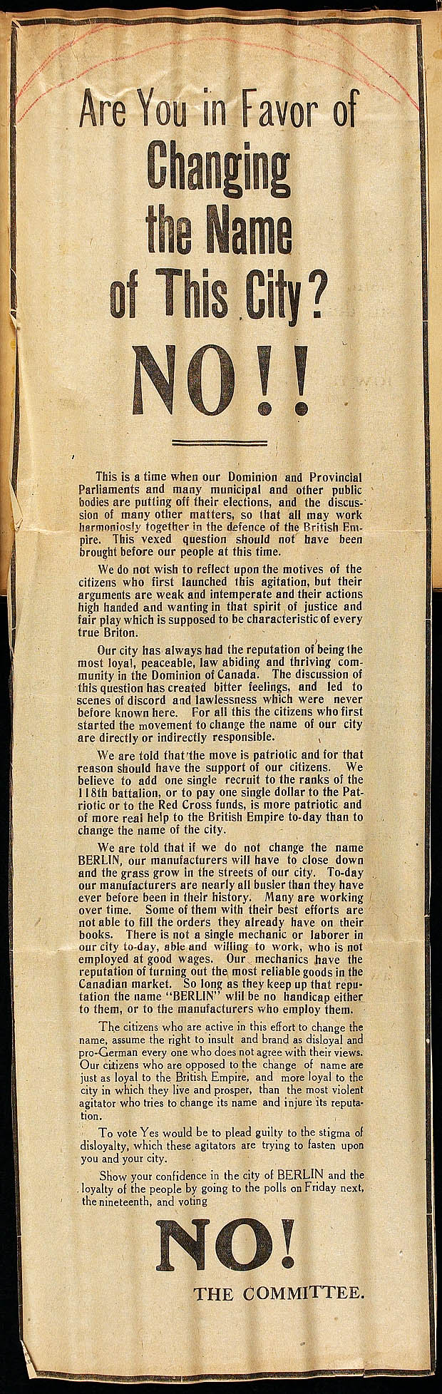 An advertisement in the Berlin Record, Ontario, Canada opposing the suggested renaming of the city. In May 1916, residents voted in favour of the name change in a referendum.